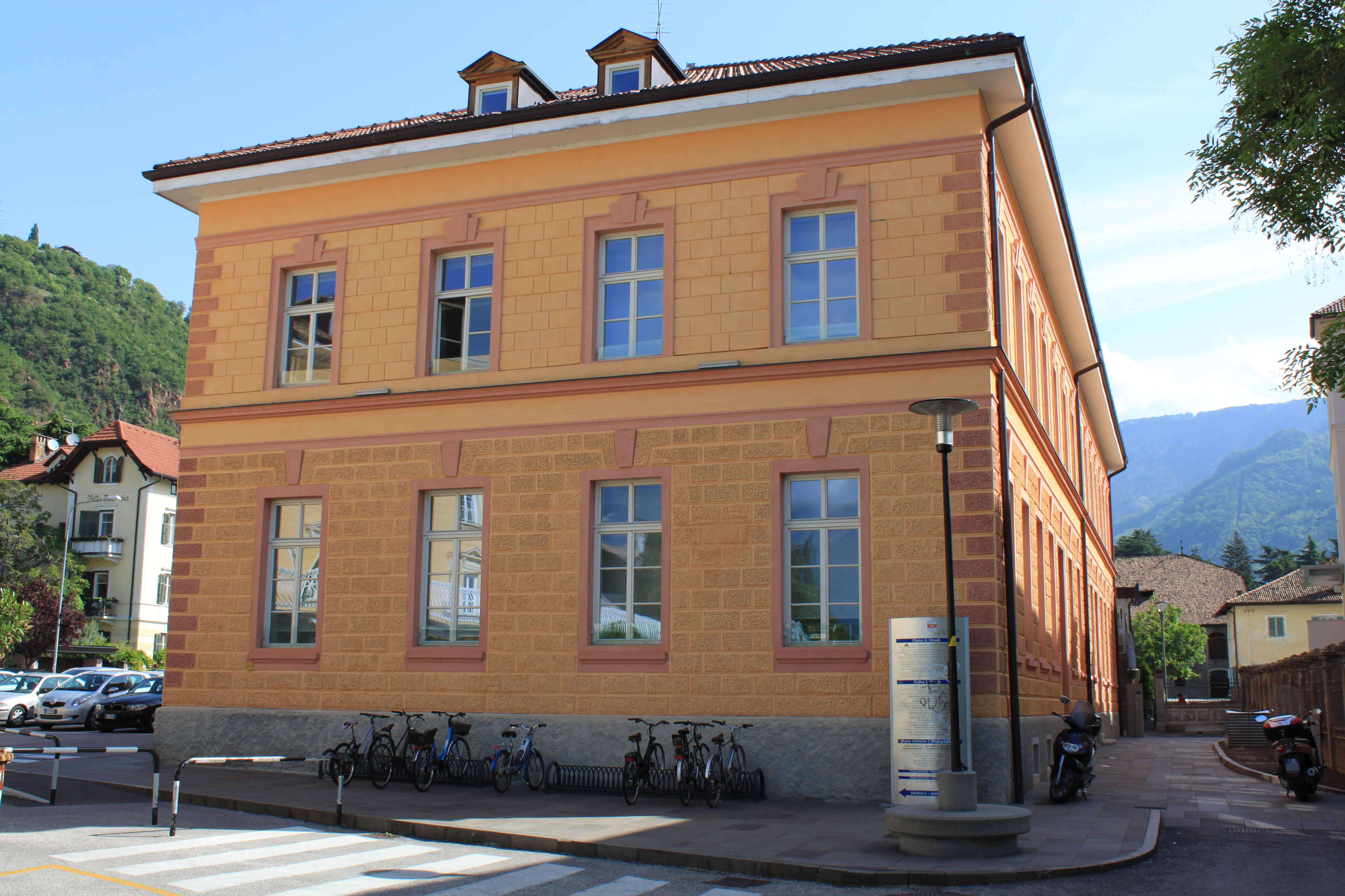 Former town hall of Gries (architect Sebastian Altmann) in Bozen Bolzano South Tyrol